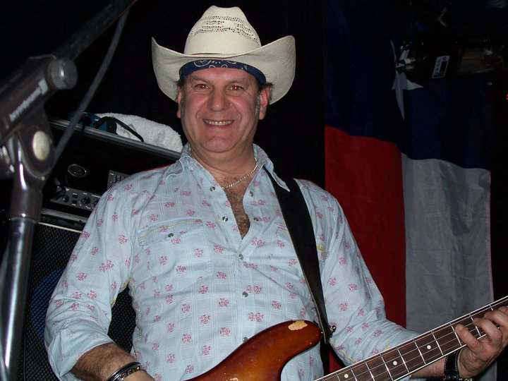 David Levy live with Los pacaminos